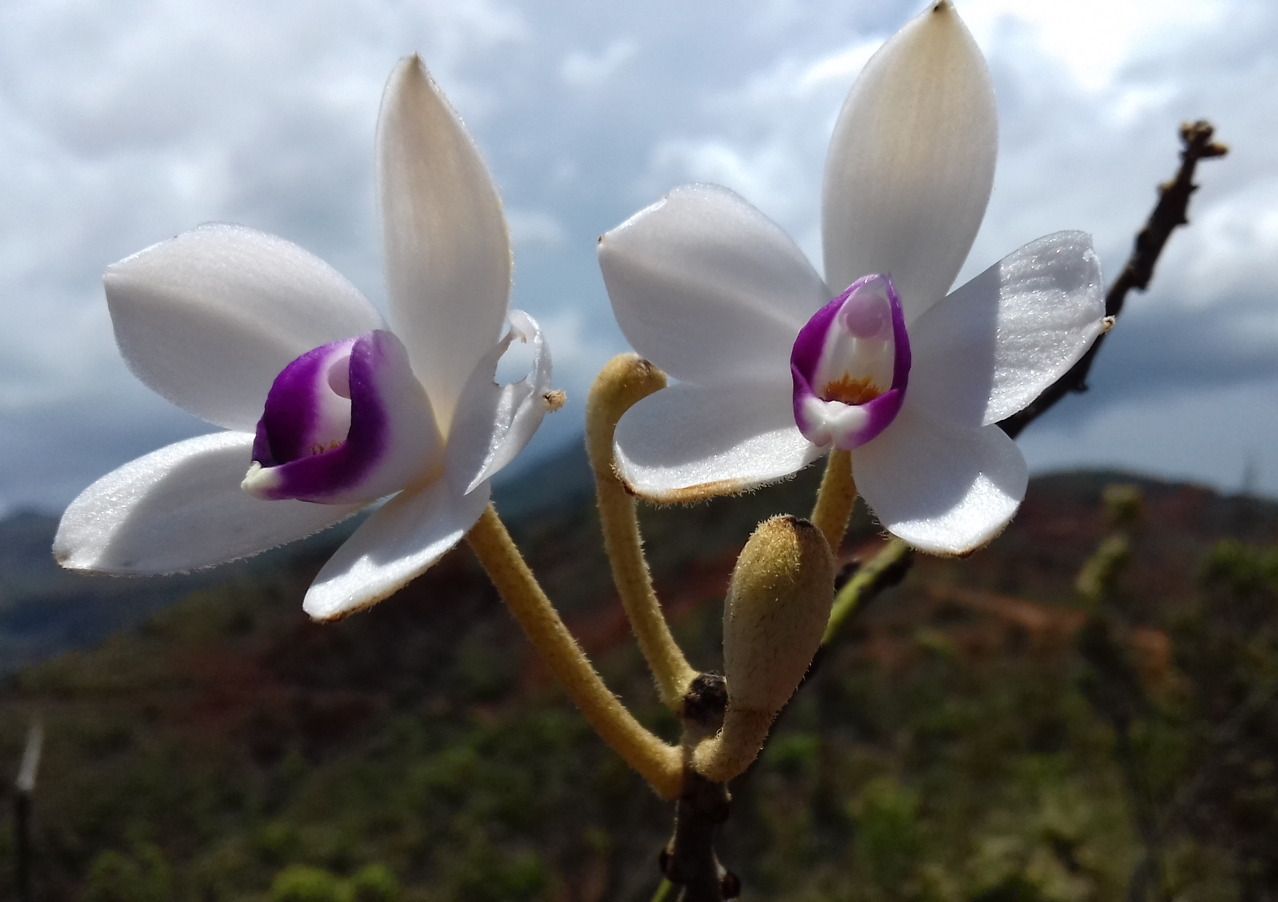 Flowers of Eriaxis rigida in Blue River Provincial Park, South Province, New Caledonia